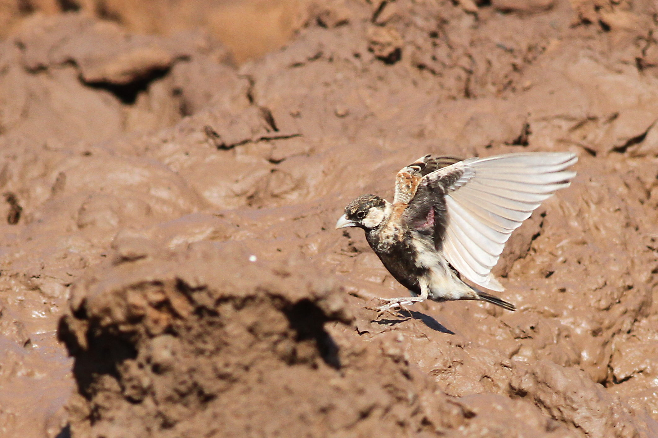 Chestnut-backed sparrow-lark,Eremopterix leucotis at Mapungubwe National Park, Limpopo, South Africa